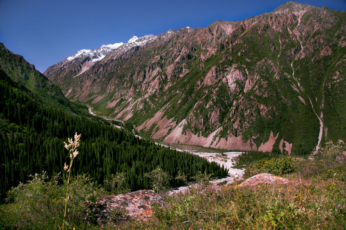 Ala Archa Canyon in the Ala Archa National Park